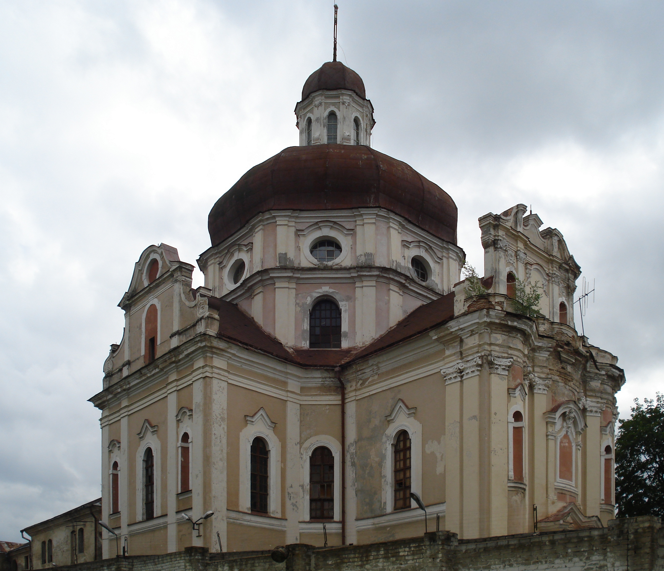 Church of Jesus' Heart (Švč. Jėzaus Širdies bažnyčia), 1865-1915 Orthodox church of St. Mary Magdalene, in Vilnius (Rasų g. 6)